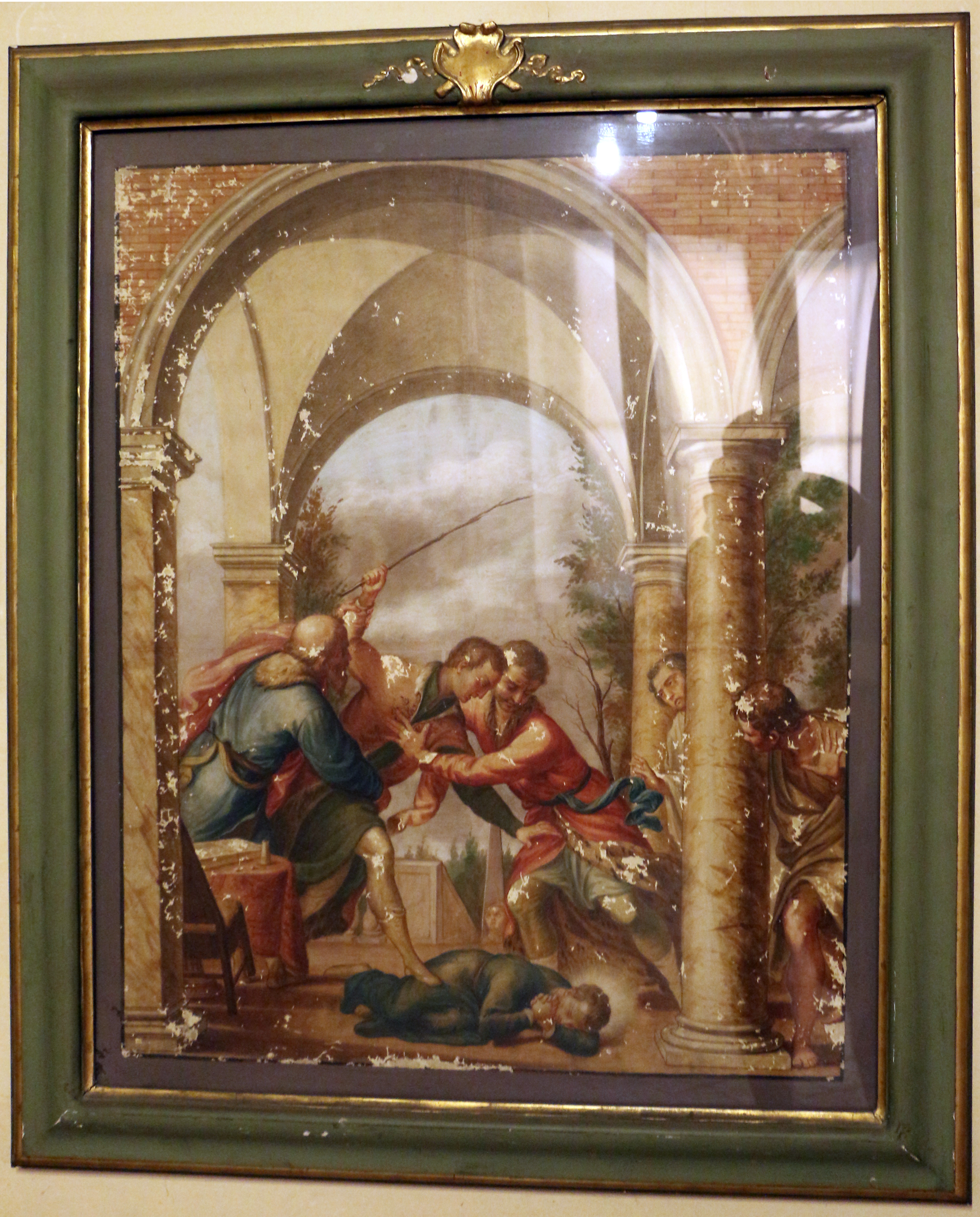 Basilica dei Santi Apostoli (Rome)